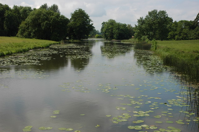 Octagon Lake, Stowe The Octagon Lake in Stowe Landscape Gardens viewed from the Palladian Bridge.